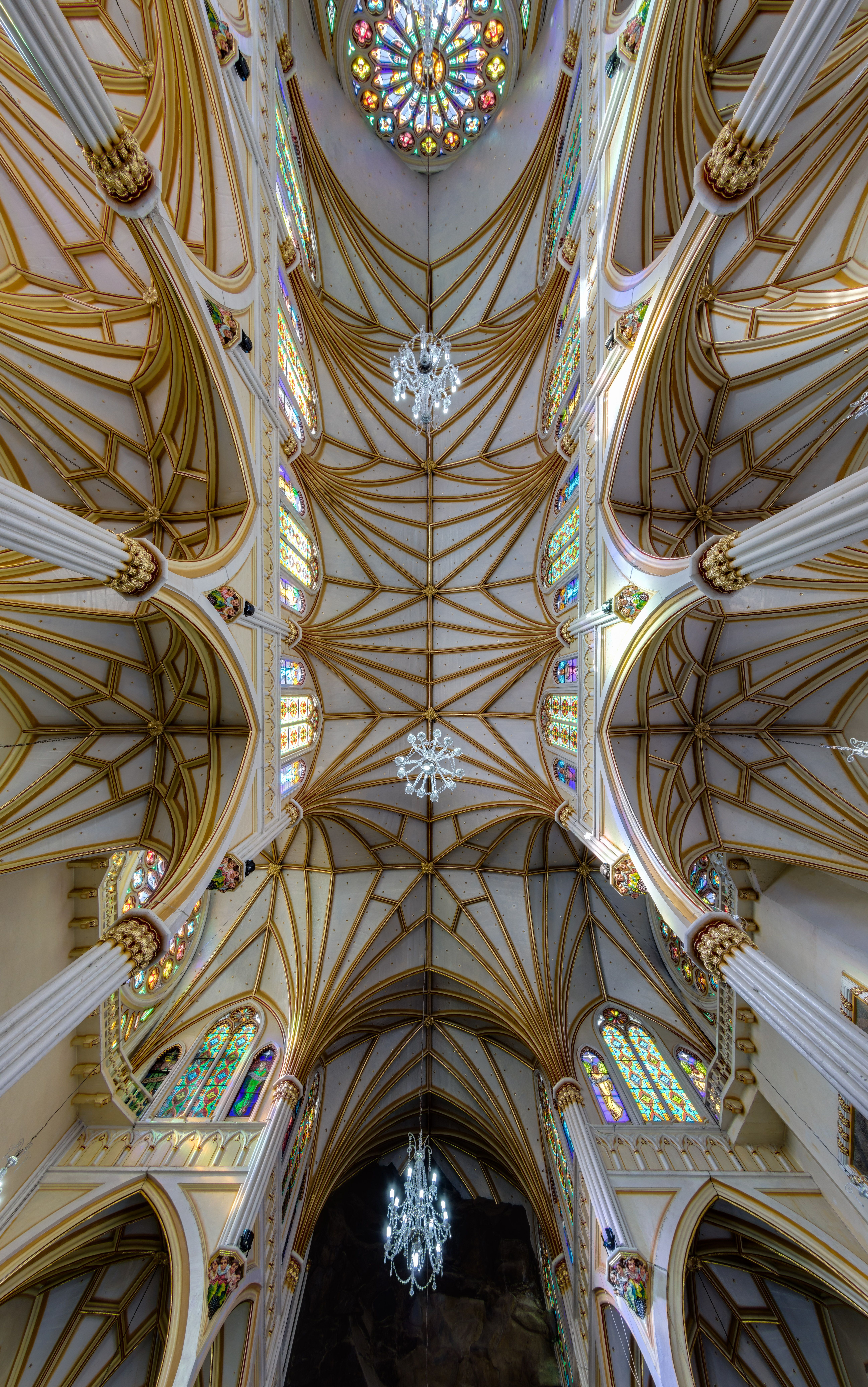 Sanctuary of Las Lajas, Ipiales, Colombia